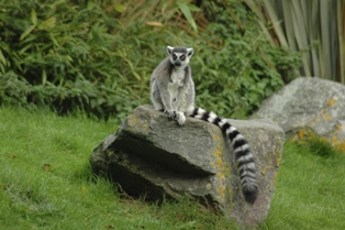 please contact author zsl or